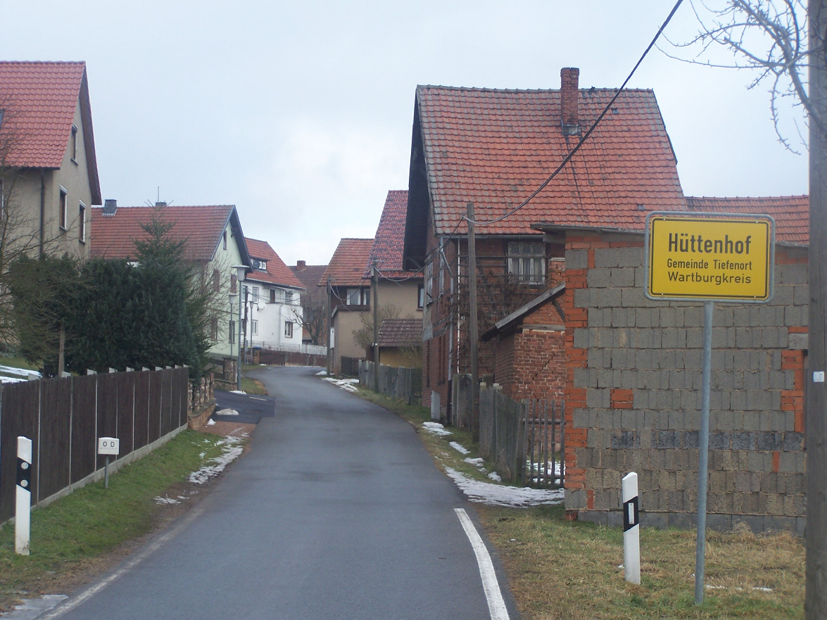 The Hüttenhof village.